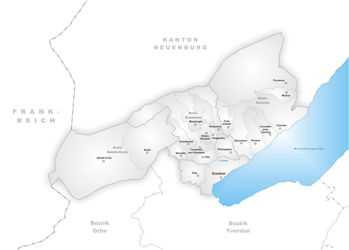 Municipalities of District Grandson until 2007